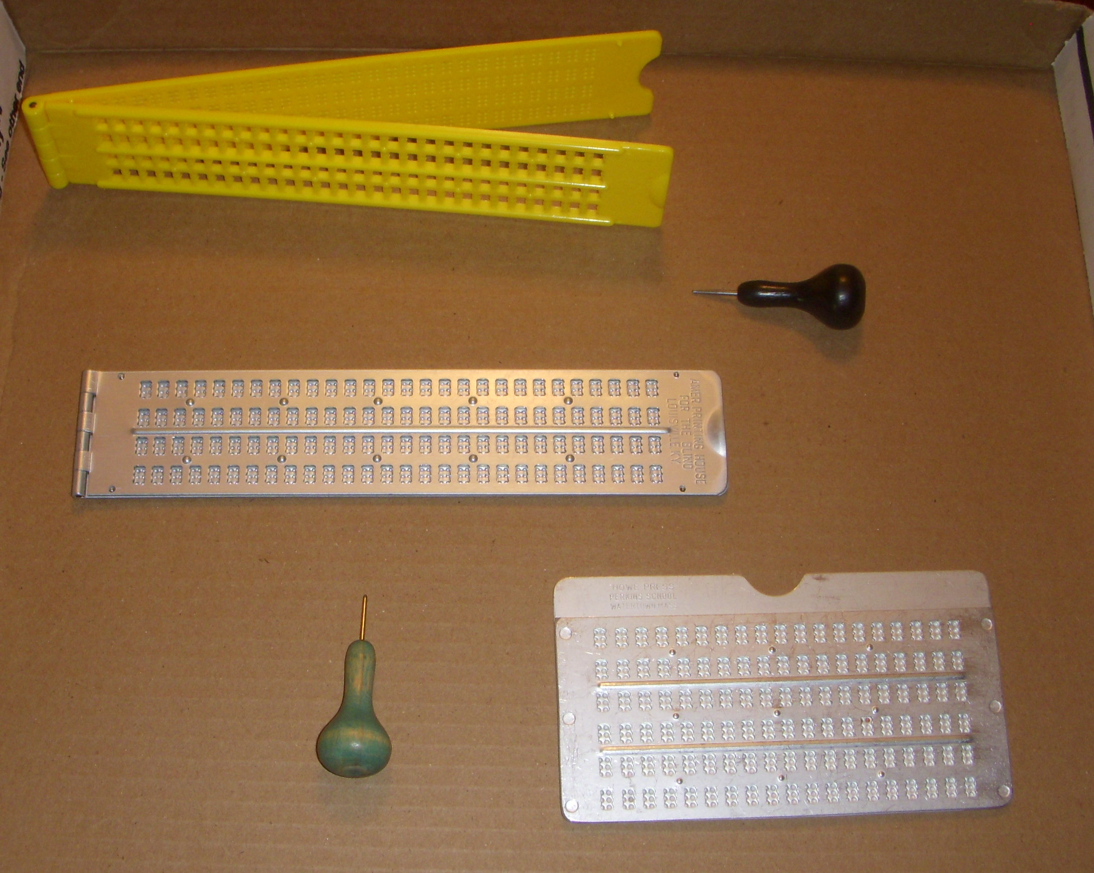 slate and stylus, 3 Slates and 2 Styli